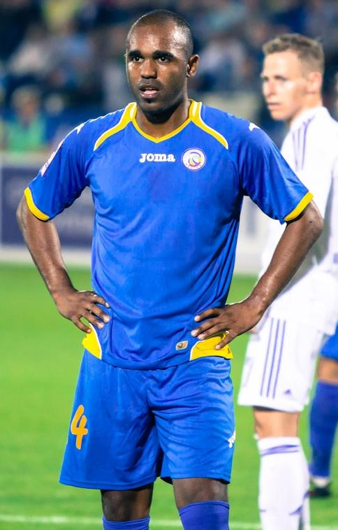 Florent Sinama-Pongolle with FC Rostov.